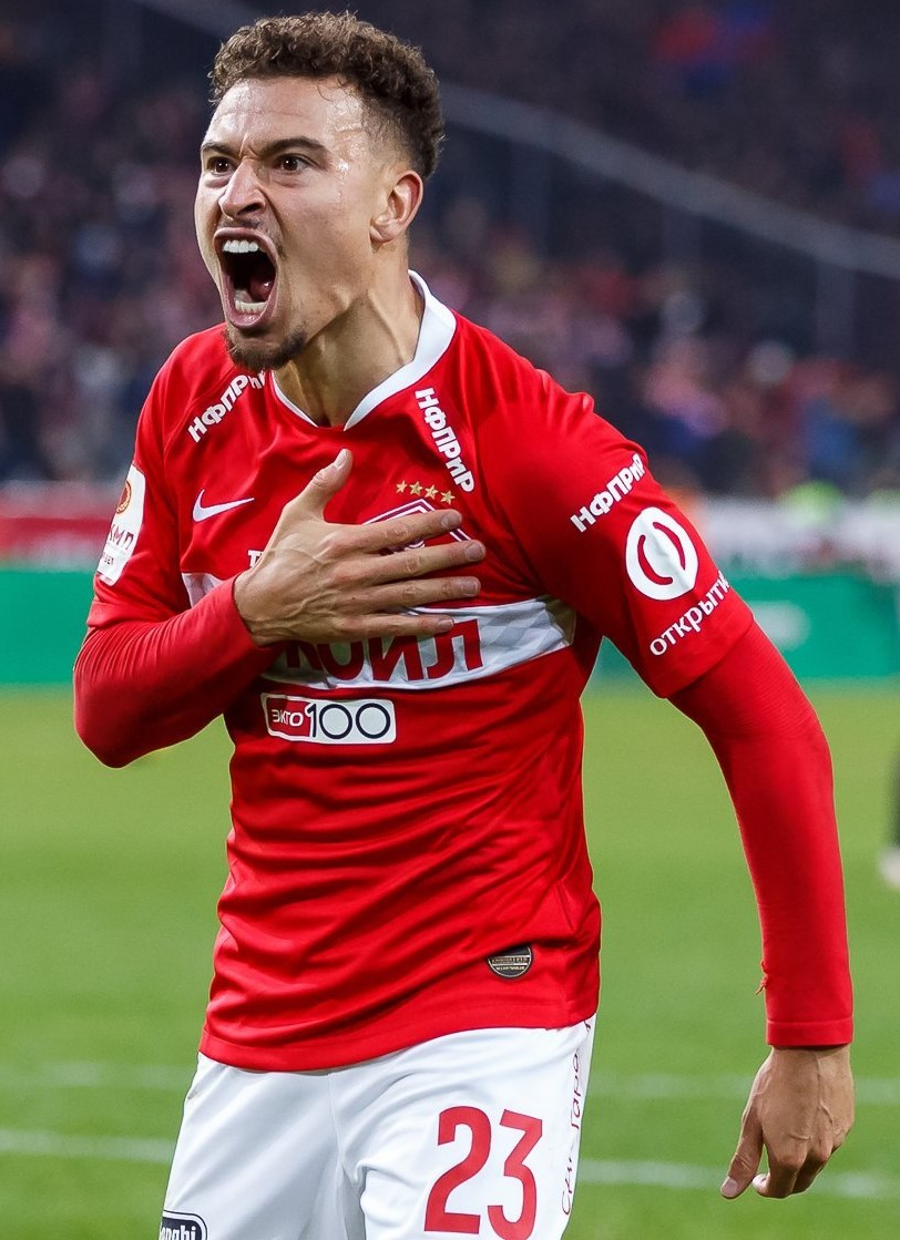 Jordan Larsson with FC Spartak Moscow in a game against PFC CSKA Moscow